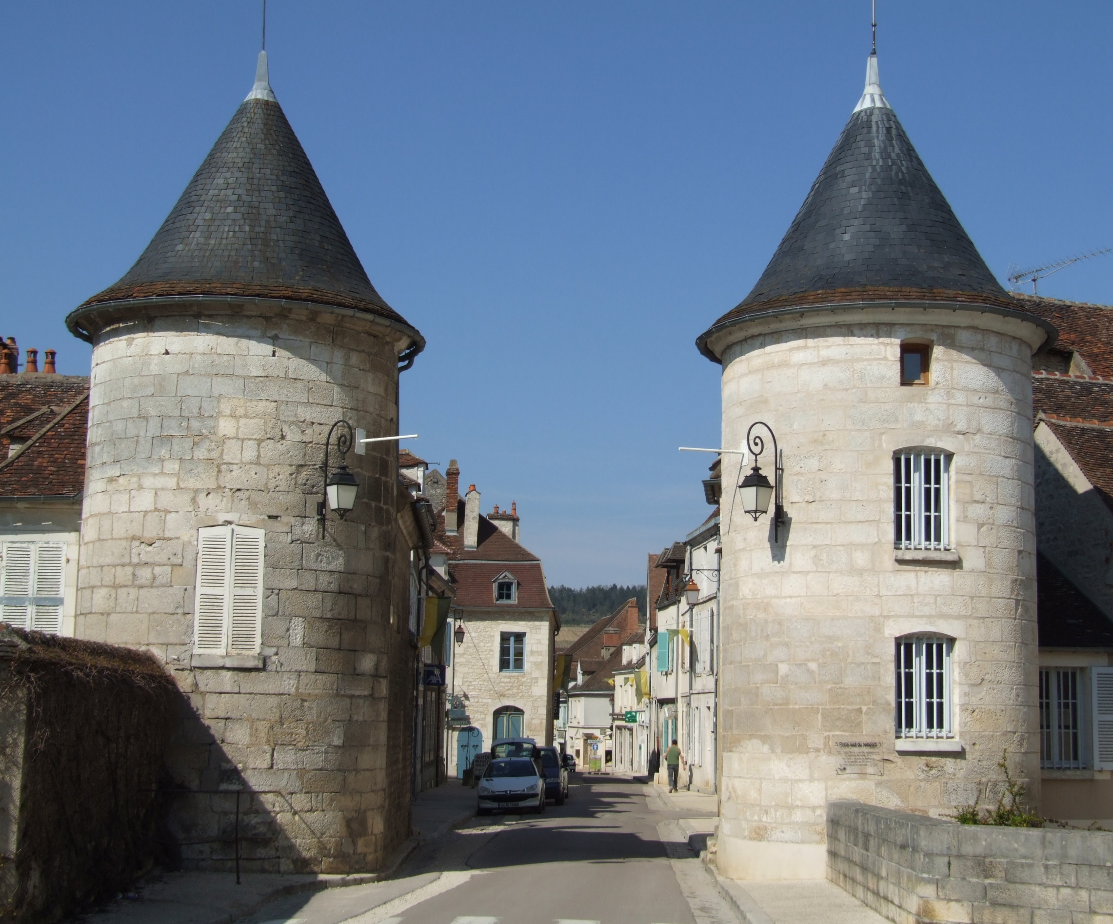 Chablis, Burgundy, FRANCE